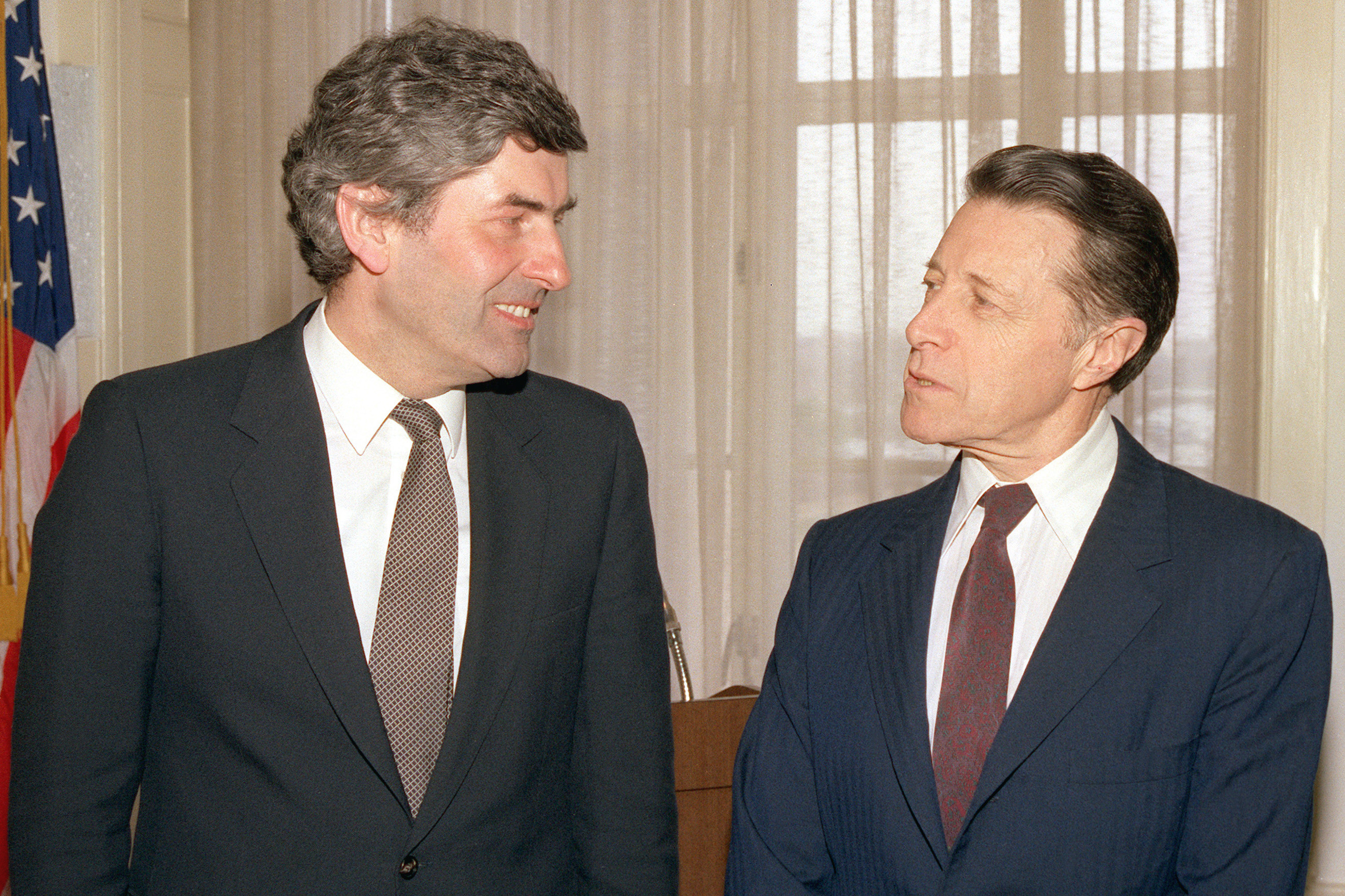 Secretary of Defense Caspar W. Weinberger meets with Prime Minister Lubbers of the Netherlands at the Pentagon River Entrance.